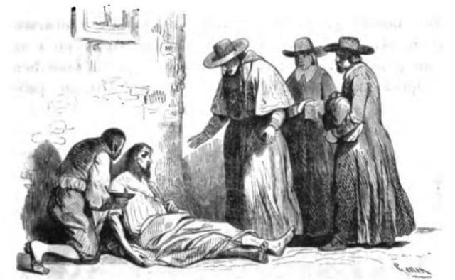 The most famous Italian historical romance,and the masterpiece of Alessandro Manzoni.